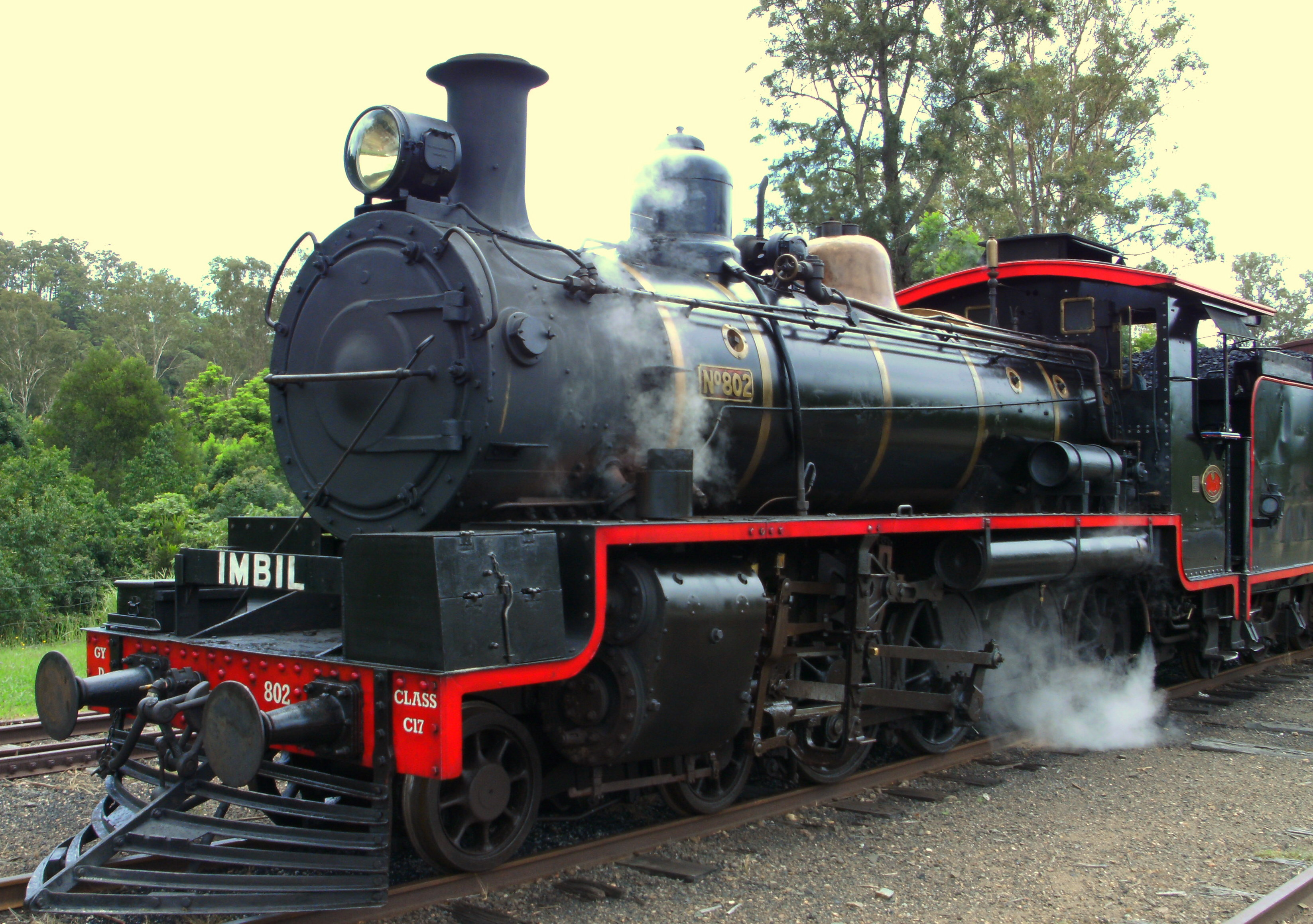 C17 Mary Valley Rattler waiting at Kandanga station - if you blow this photo up, you can see the pipes running down the sides of the train, from the sand dome, which is the front dome. You can trace them in the shadows down to within a few cms of the track, in front of the wheels. Sand would be dropped (or I think it is fed by a blast of steam) onto the line if it is very slippery.